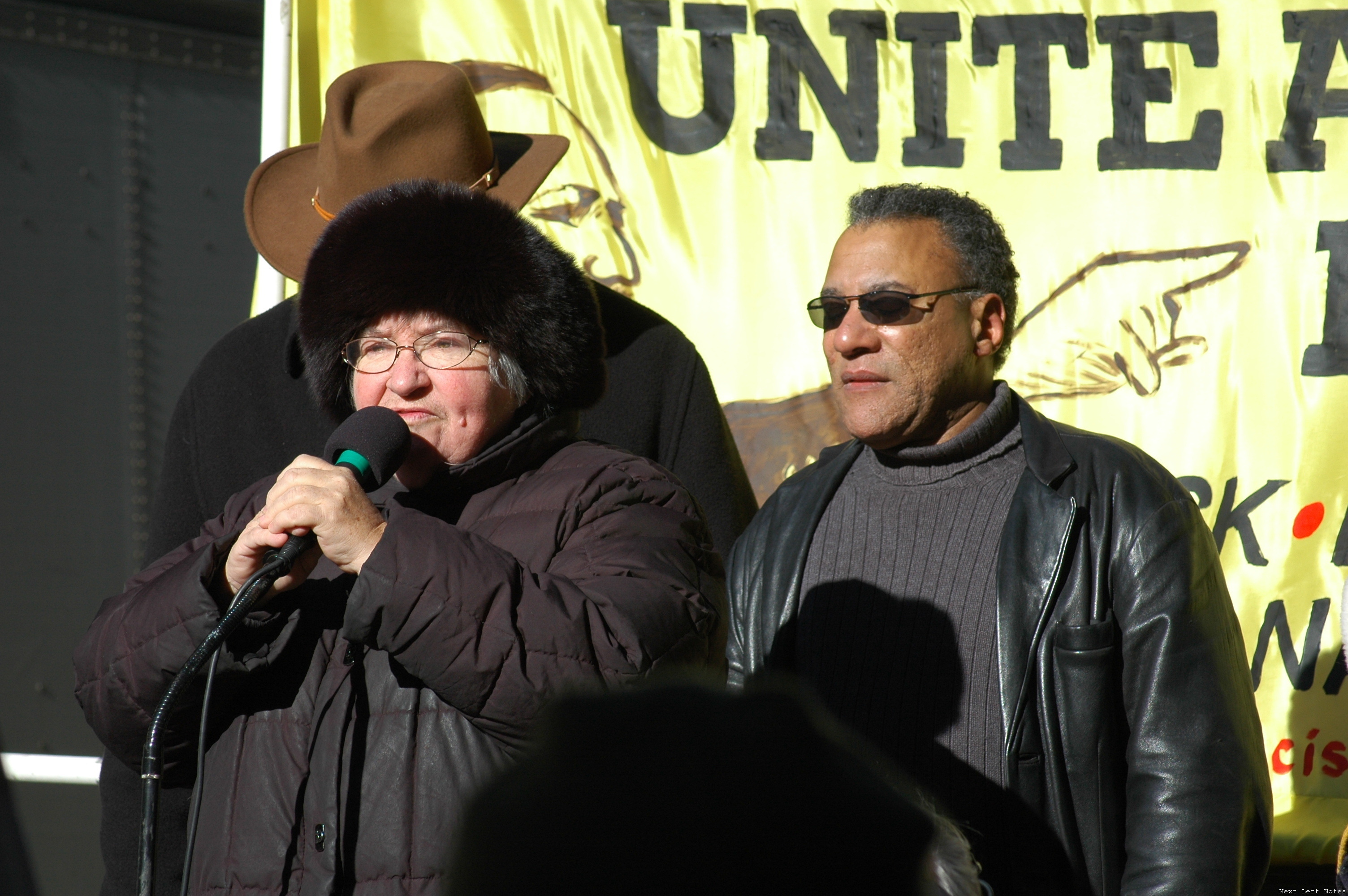 Lynne Stewart and Larry Holmes at a March Against Racism rally - held on Martin Luther King, Jr. day in 2008 in Manhattan.